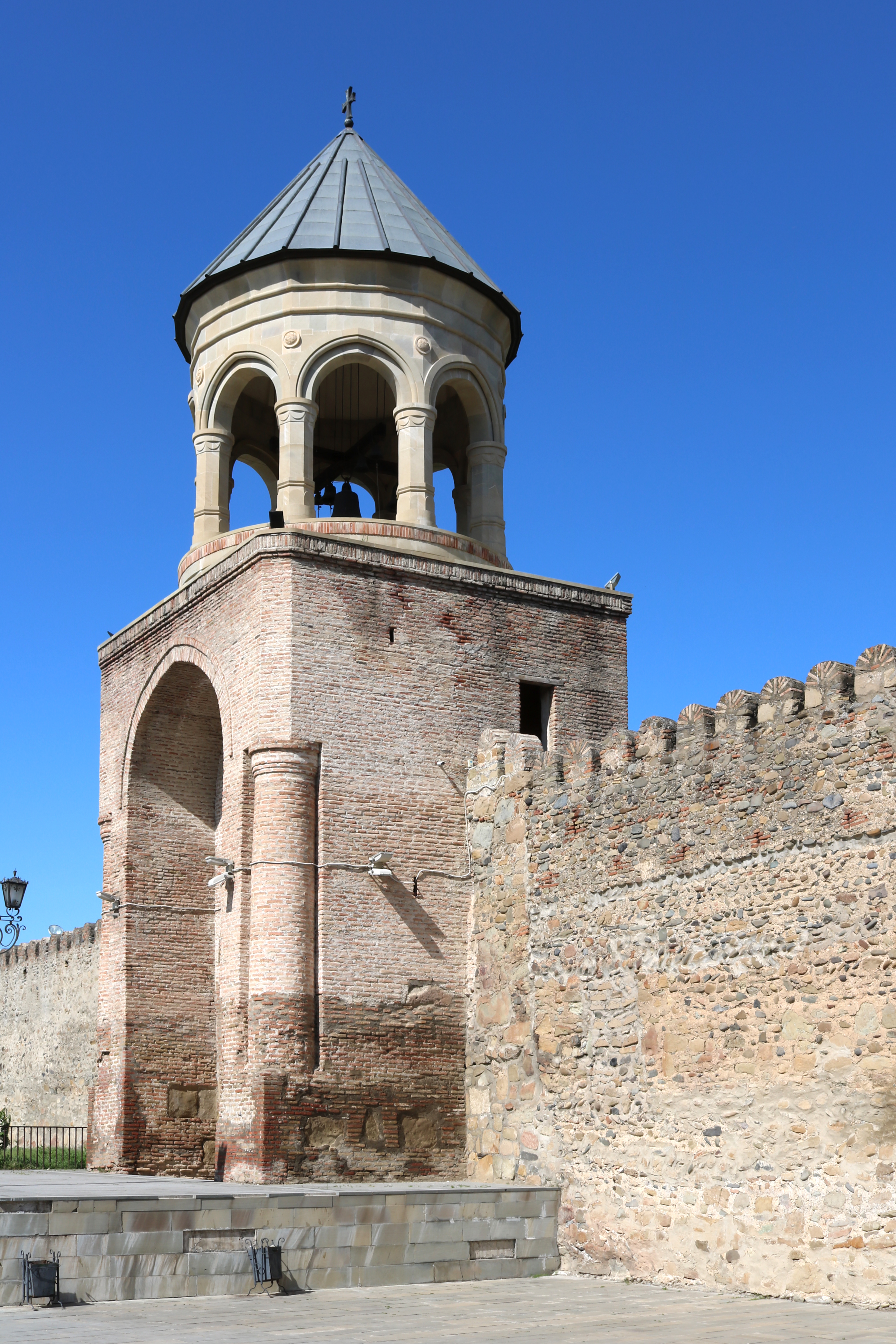 Swetizchoweli Kathedrale, in Mtskheta, Georgien, Turm in der Aussenmauer